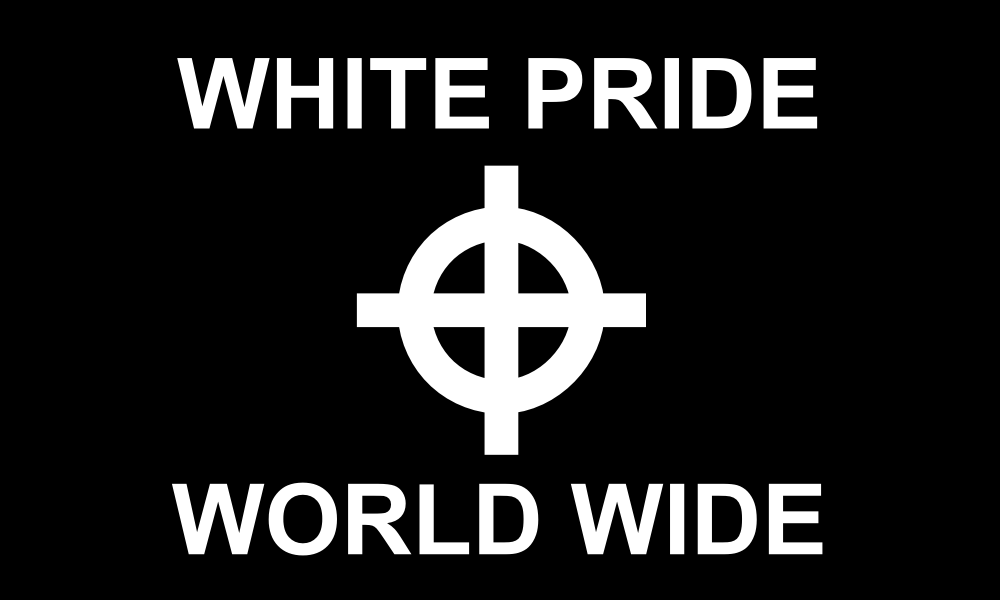 A larger, clearer rendering of the WPWW flag used by neo nazis